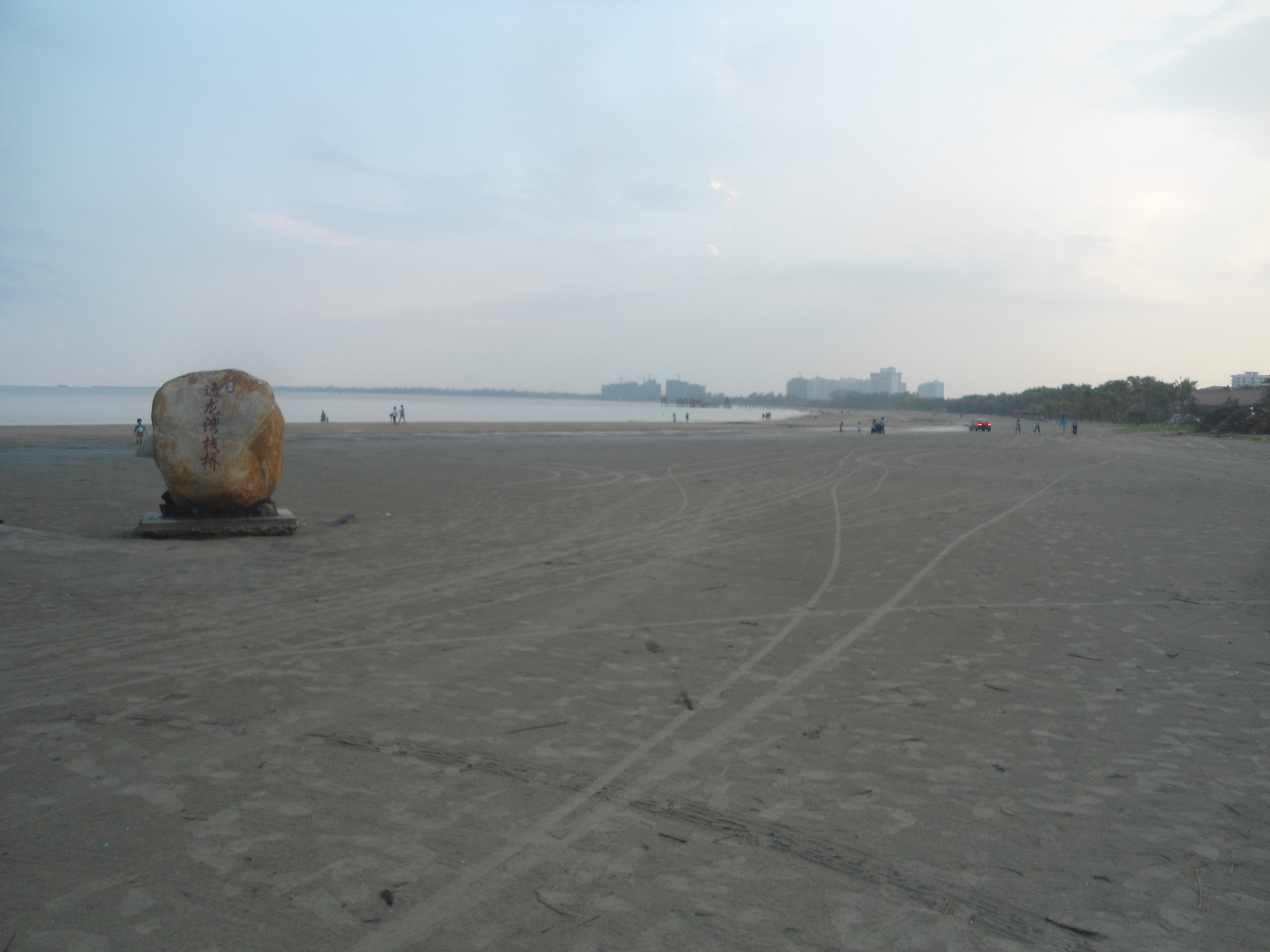 Yilong Bay, Wenchang, Hainan, China